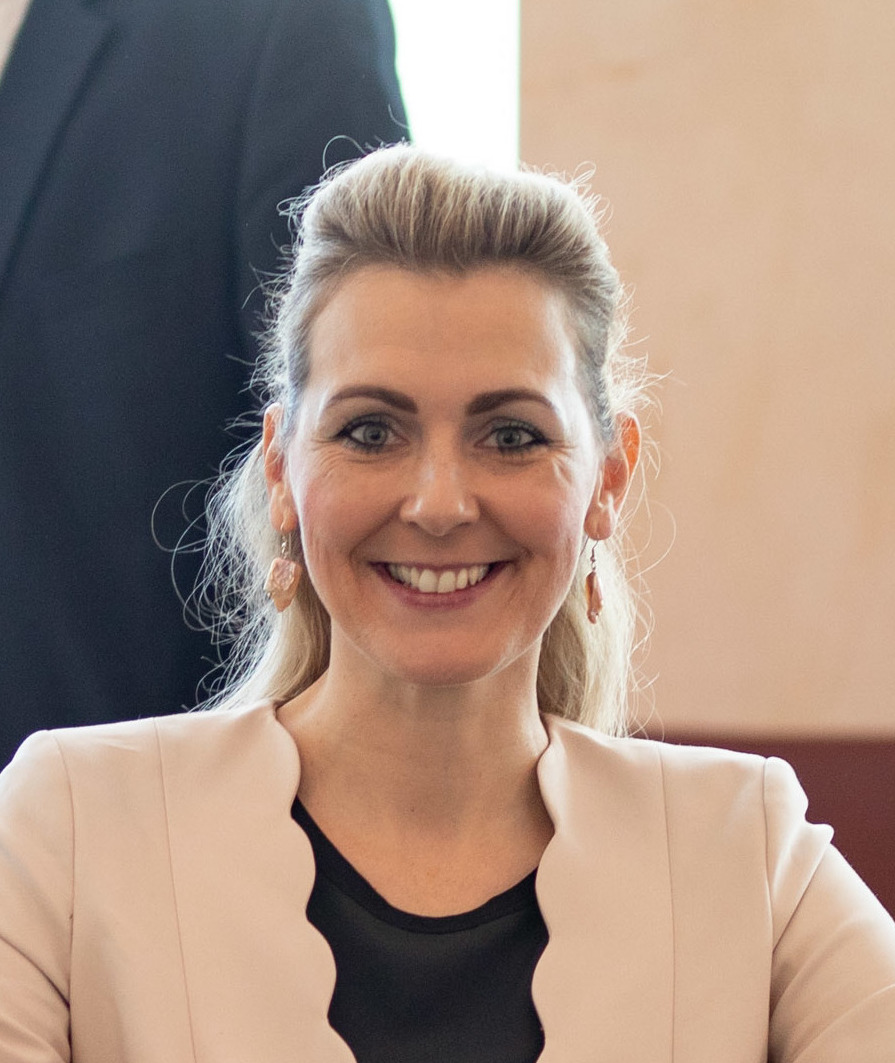 Fotocredit: BKA